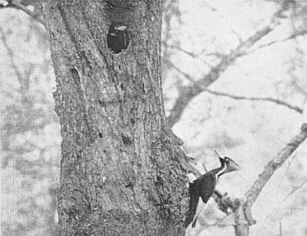 Male Ivory-Bill returns to relieve the female. Photo taken in Singer Tract, Louisiana by Arthur A. Allen (April 1935). From Recent observations of the Ivory-Billed Woodpecker (Auk) Volume 54, Number 2, April, 1937.